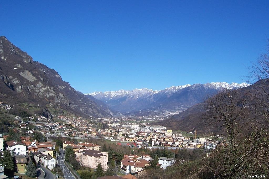 Lower Val Camonica to north. Gorzone, Darfo Boario Terme, Val Camonica, Italy